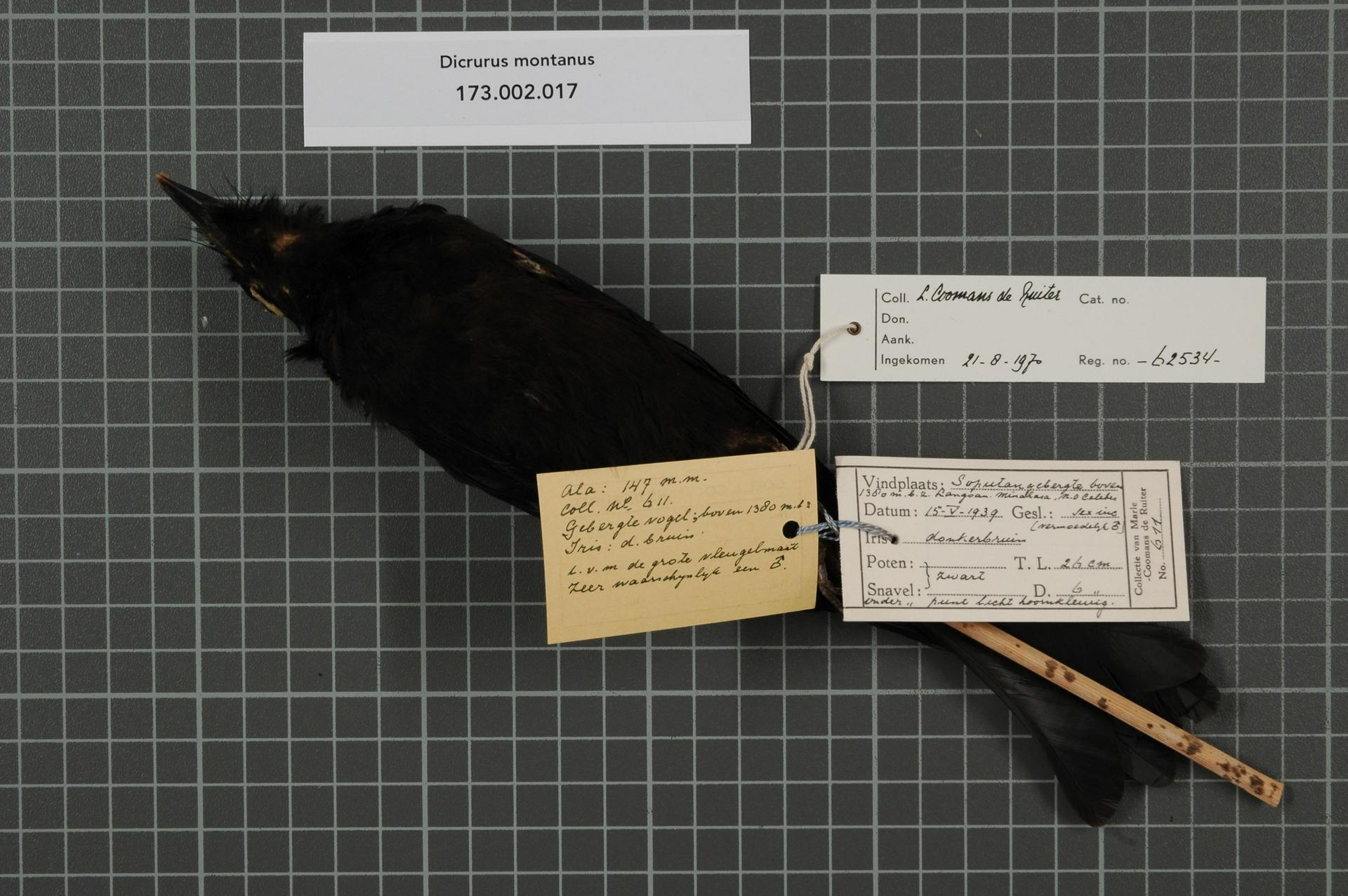 Dicrurus montanus (Riley, 1919)